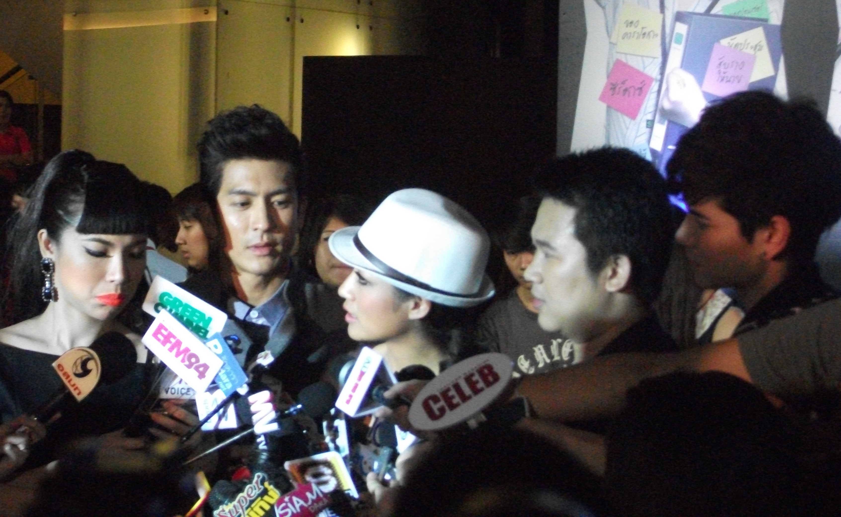 Actors and director of Super Salary Man at the preview of the film at Siam Paragon.